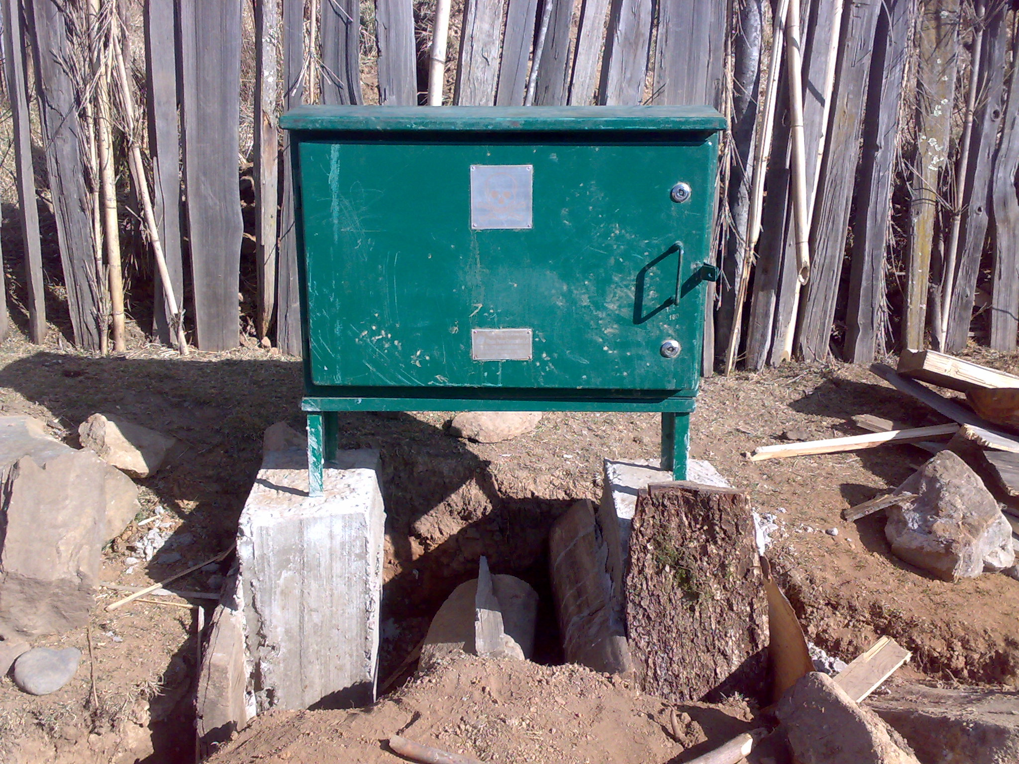 The electrification was done using underground cable system